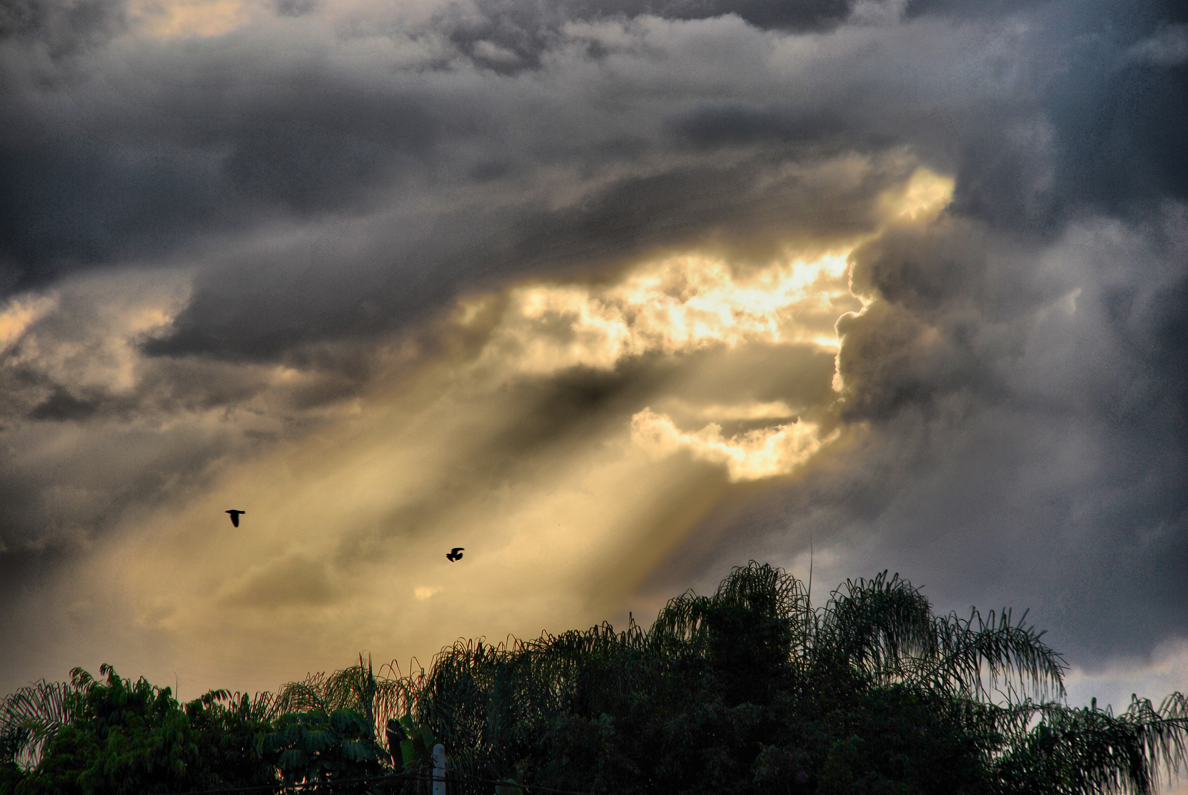 Peace of Bird, Wildlife and Plants of Israel